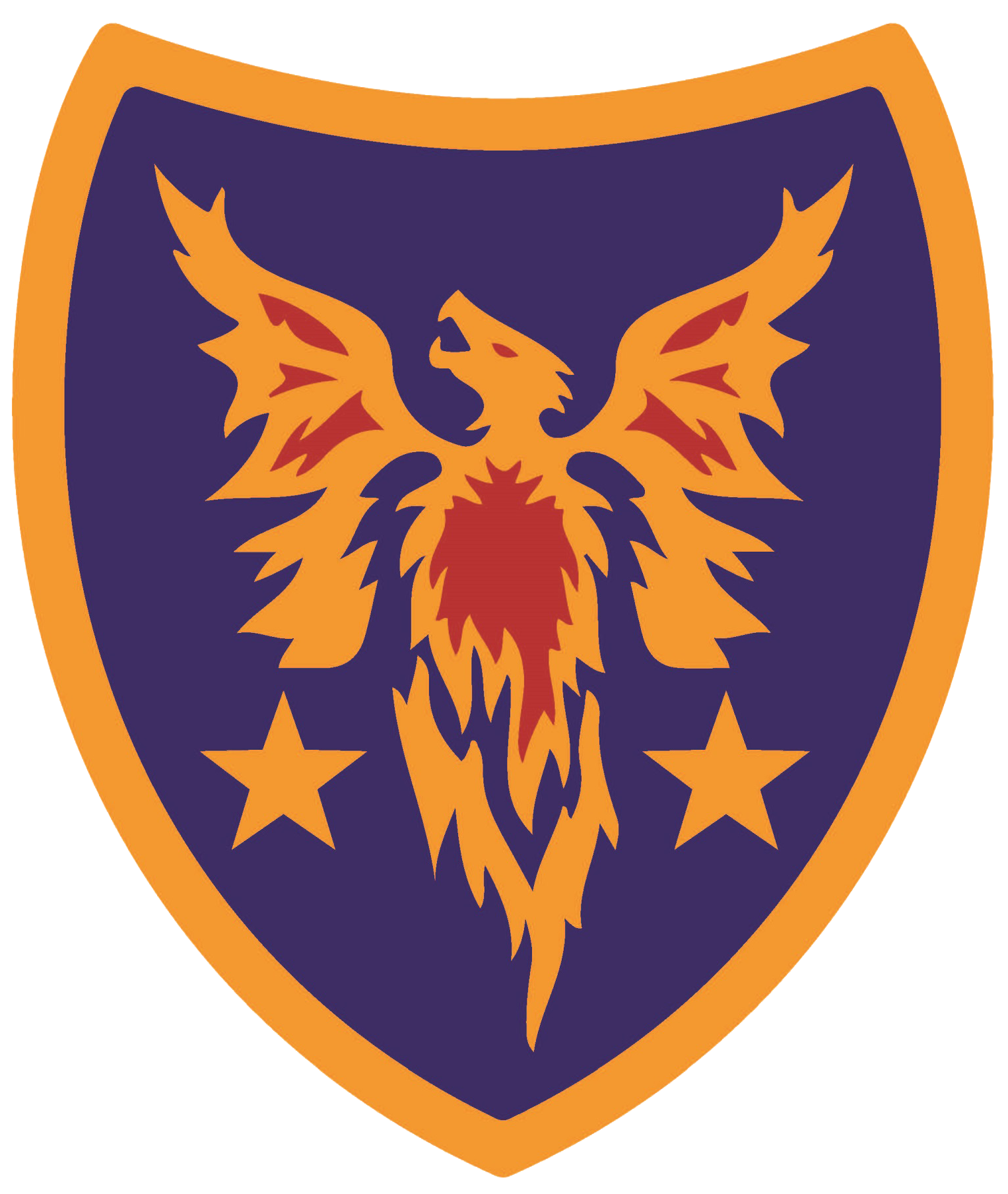 This image shows the shoulder sleeve insignia of the United States Army Reserve Aviation Command. It was designed by the United States Army Institute of Heraldry. It is in the public domain but its use is restricted by Title 18, United States Code, Section 704 [1] and the Code of Federal Regulations (32 CFR, Part 507) [2], [3]. Permission to use this image for most commercial purposes must be obtained from The Institute of Heraldry prior to use.